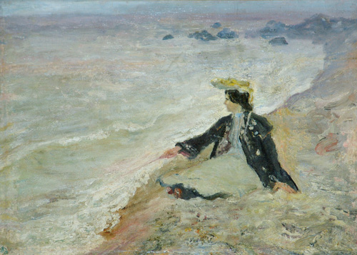 Woman near sea.label QS:Len,"Woman near sea."